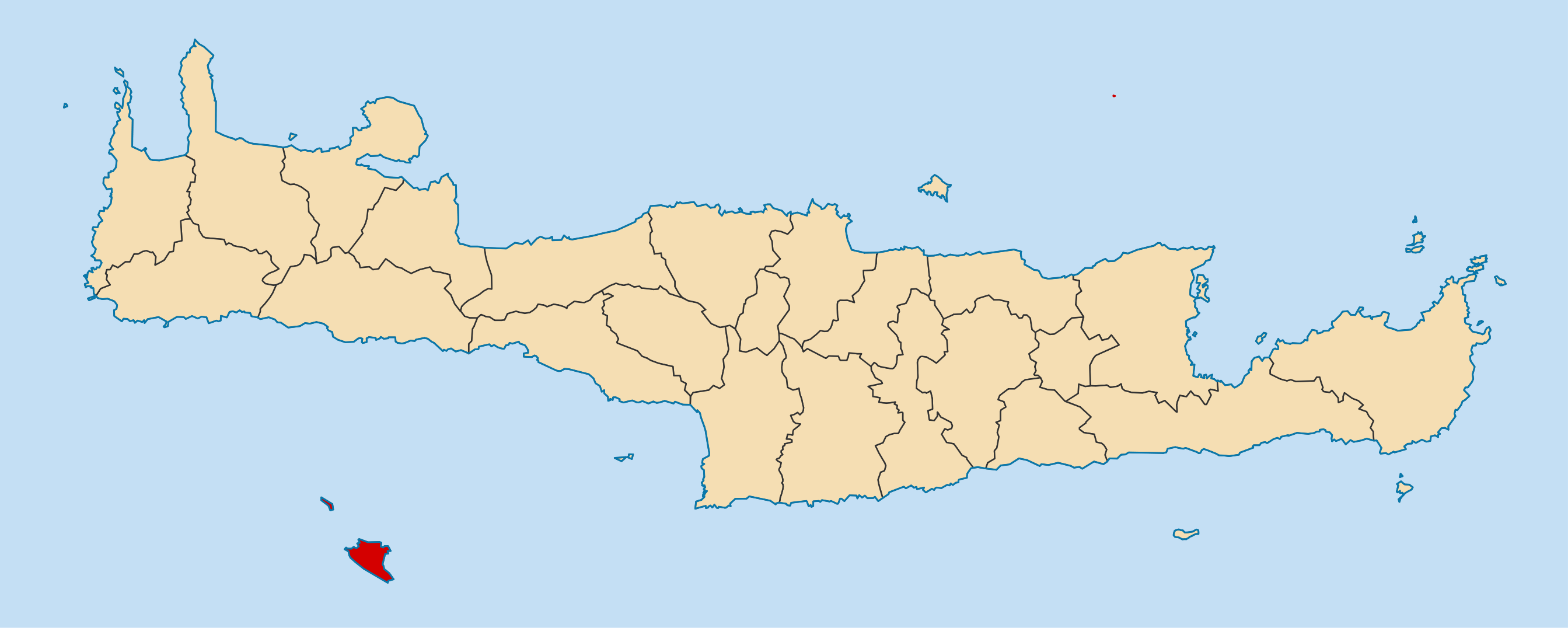 Locator map for Gavdos municipality in Greek region Crete (2011)